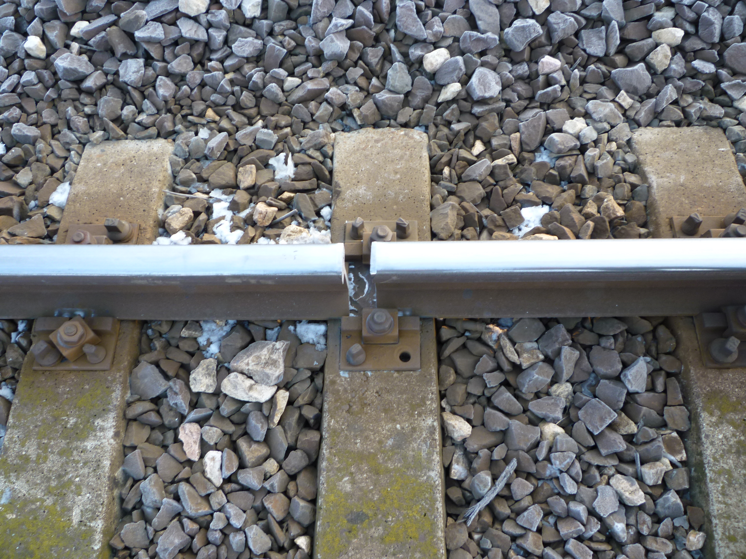 Rail breaking